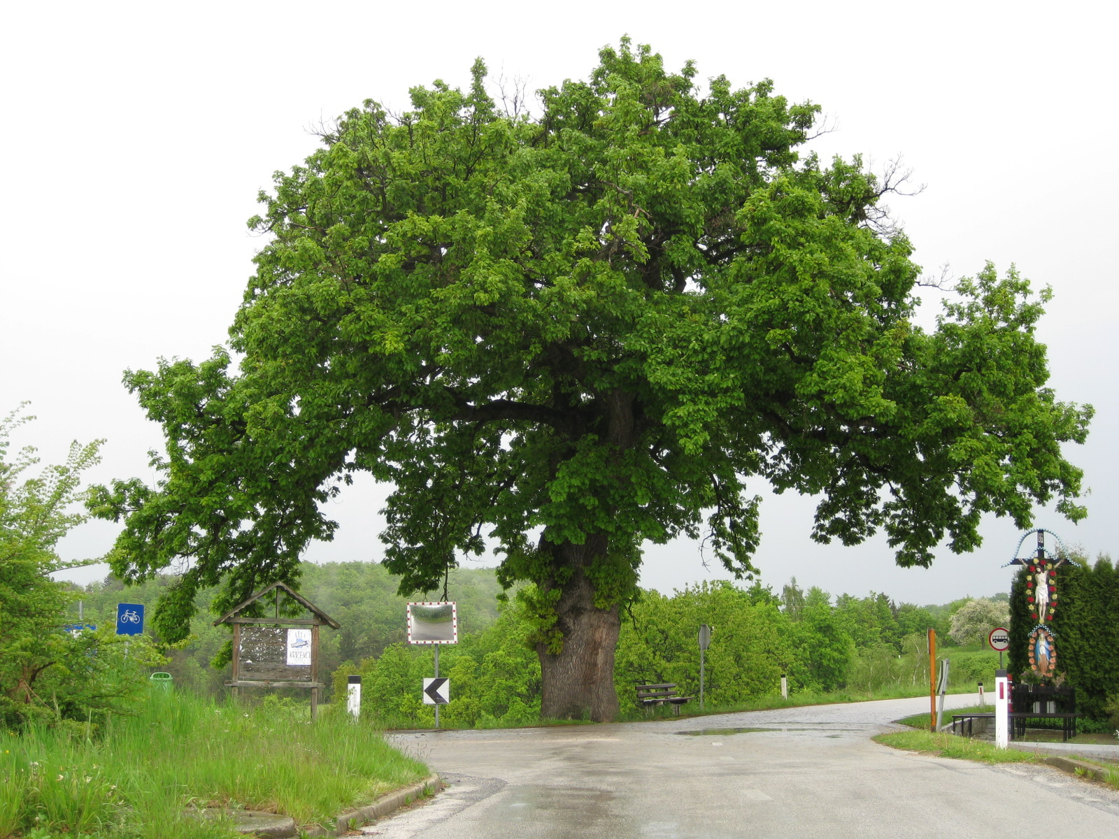 Oak tree (Quercus petraea) in the village of Trdkova, northeastern Slovenia. It is 22 meters high, its girth is 493 cm, and it is over 400 years old.